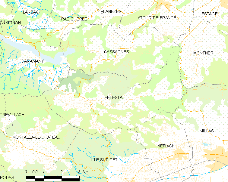 Map of French municipality